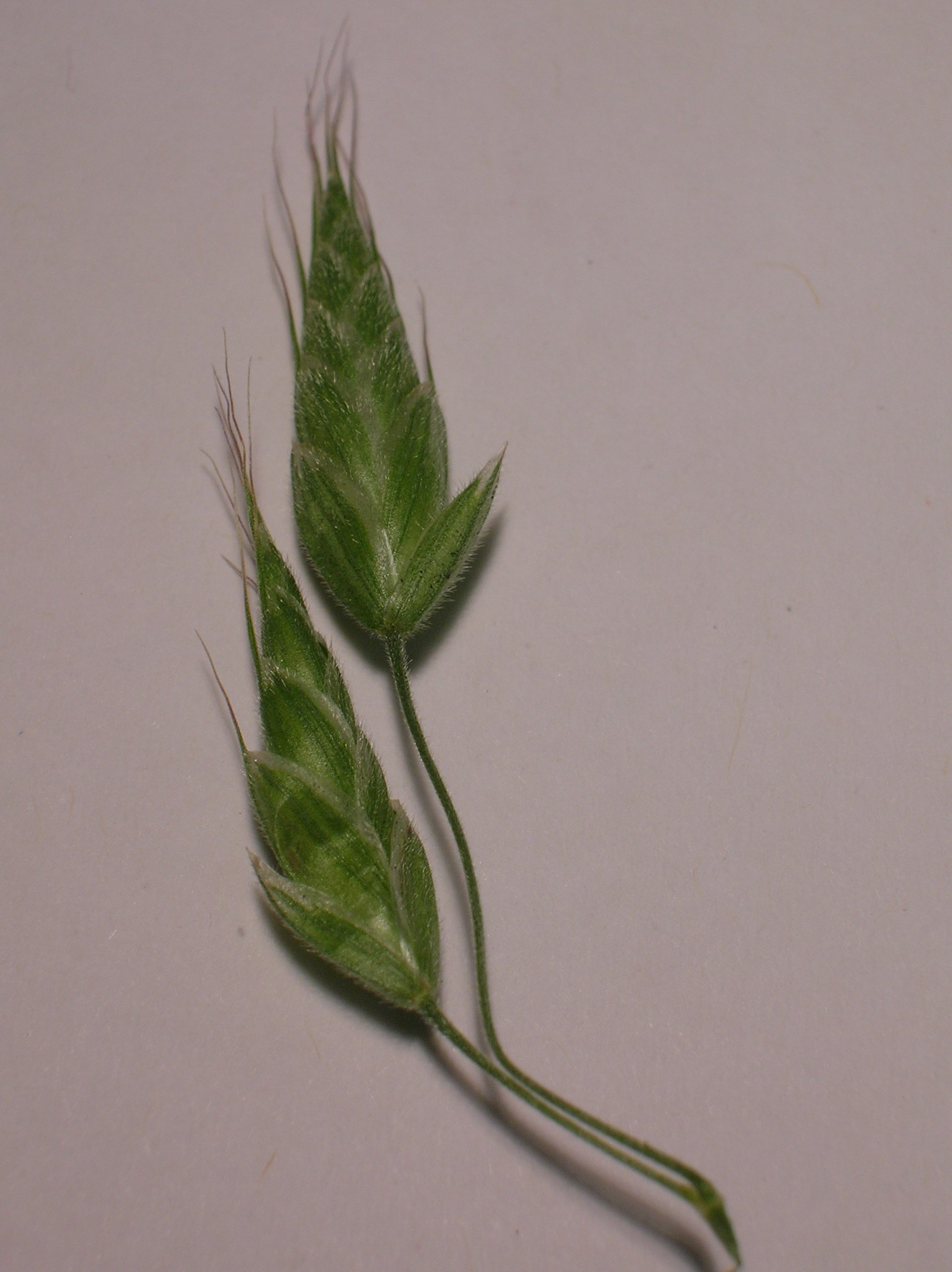 Details of spikelets of Bromus commutatus, Meadow Brome, from Spier's, Ayrshire, Scotland.